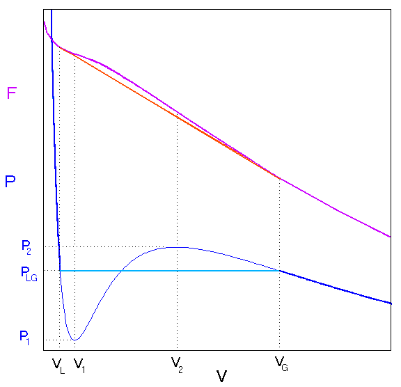 Isotherm and Helmholtz Free Energy of the Van der Waals equation of state. created by Eman using MATLAB